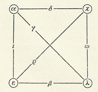 Czekanowski's racial schema for European anthropological types